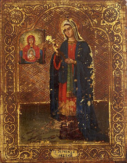 Claudia, mother of pope Linus, feast day 7 August